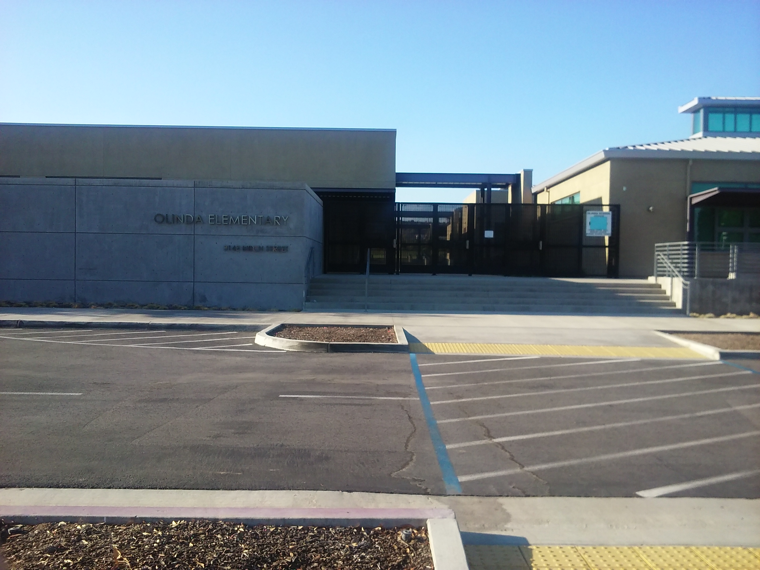 The front of Olinda Elementary on Birch Street in Brea, California.